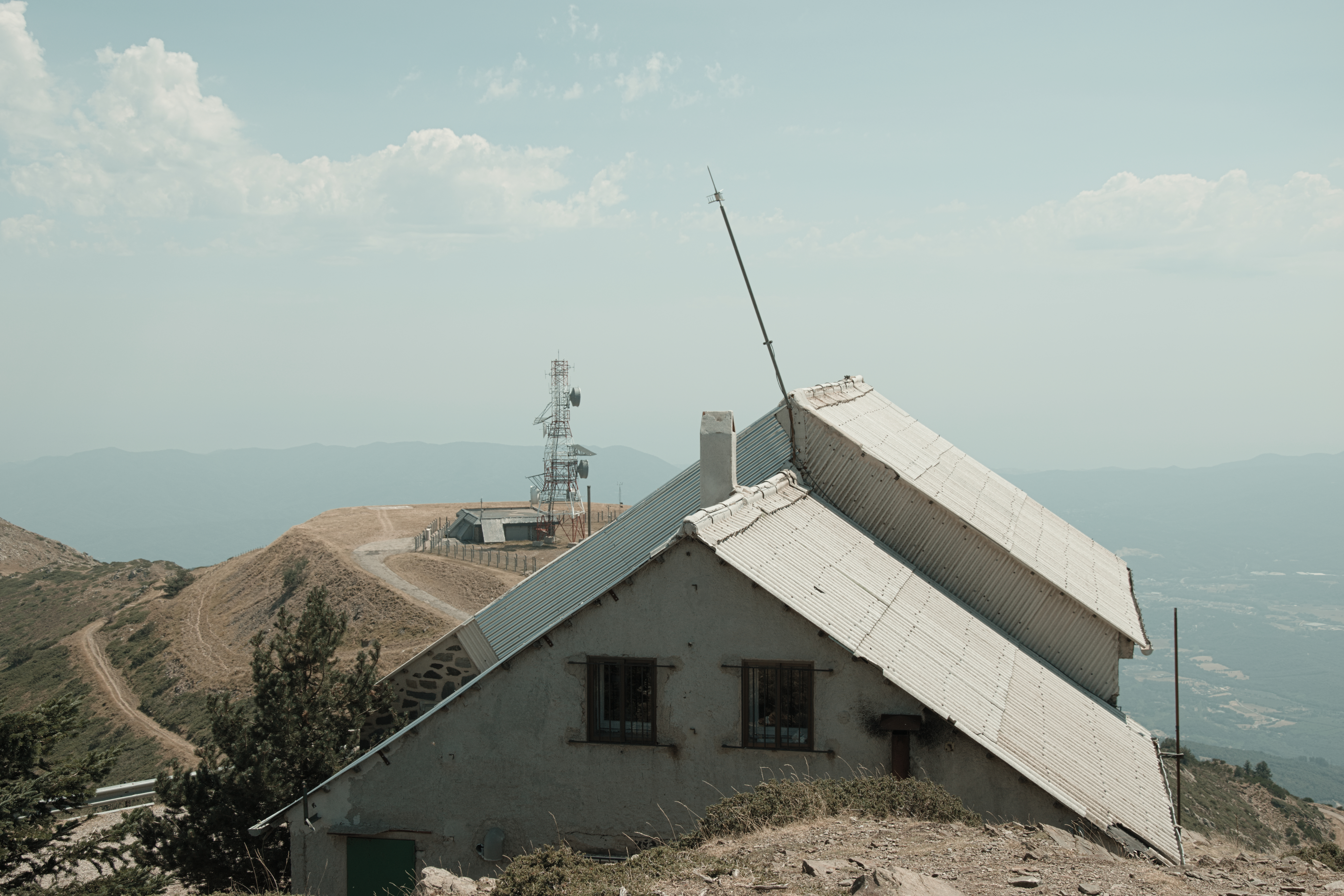 Meteorological Observatory at the top of the « Turó de l'Home » in the Montseny Massif (Catalonia, Spain) This is a a photo of an emblematic summit in Catalonia, Spain, with id: CE-295107006